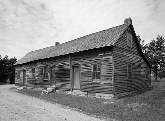 Hollenberg Pony Express Station, Route 243, 6.9 miles south of Nebraska border, Hanover vicinity (Washington County, Kansas) (cropped)